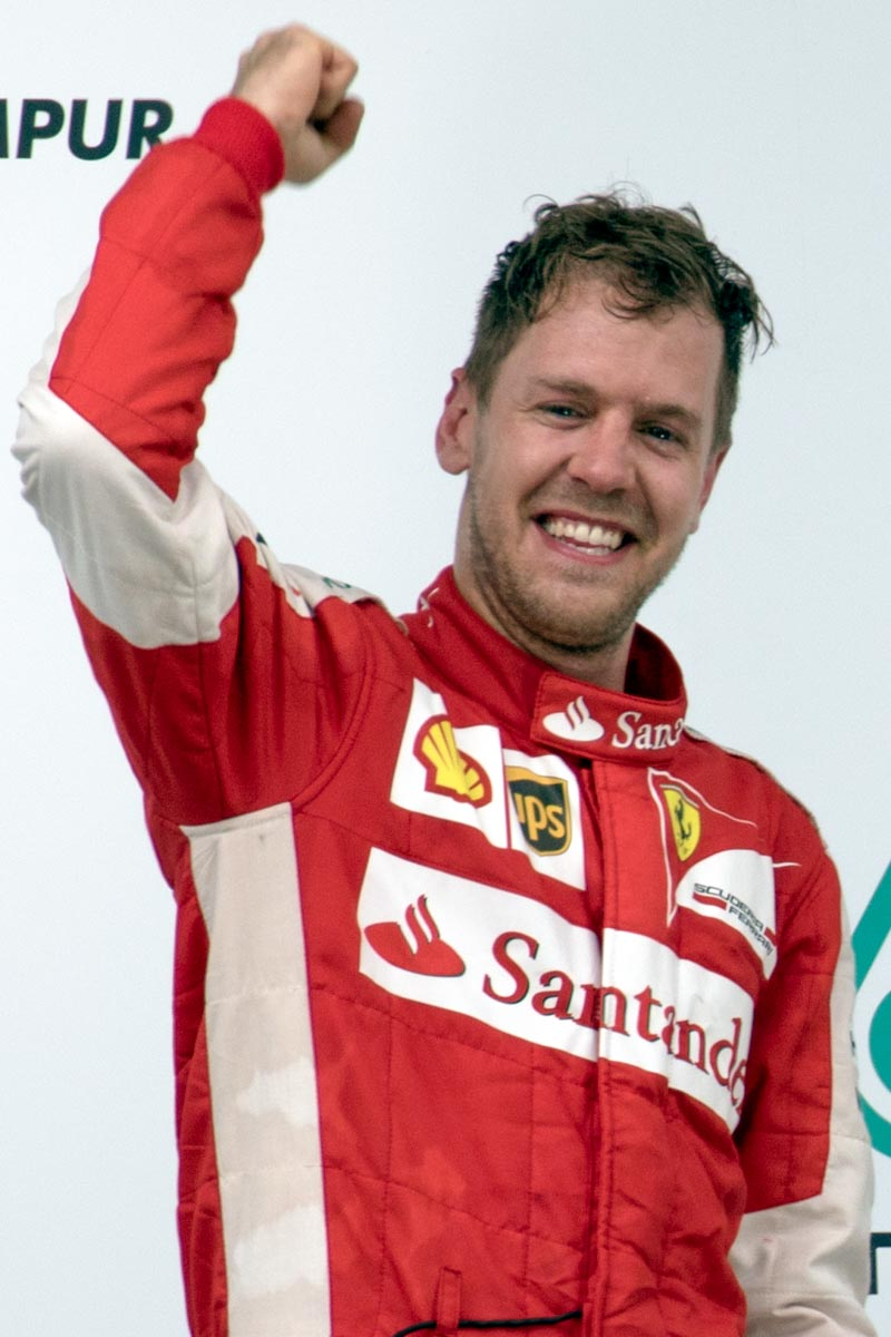 Formula One 2015 Rd.2 Malaysian GP: Sebastian Vettel (Ferrari)